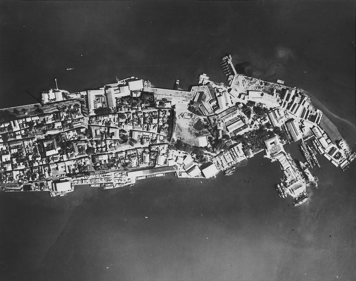 Cavite Navy Yard, Philippines, 27 October 1941. The largest ship docked in the yard (right) is USS Canopus (AS-9) with two destroyers near her starboard bow. Six motor torpedo boats (PT) are tied up to the pier in upper right center.